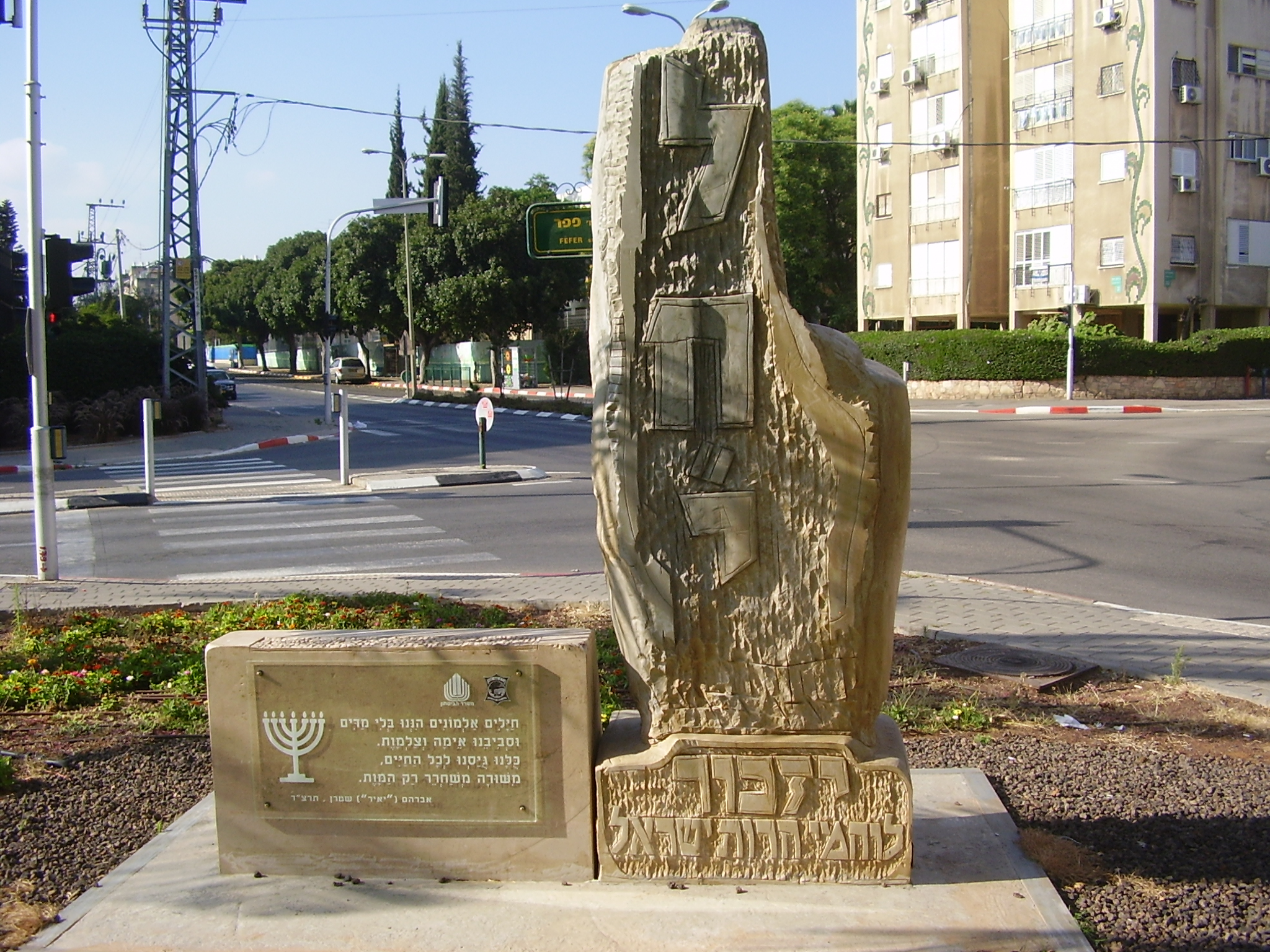 Lehi (Israel freedom fighters) in Petah Tikva, Israel